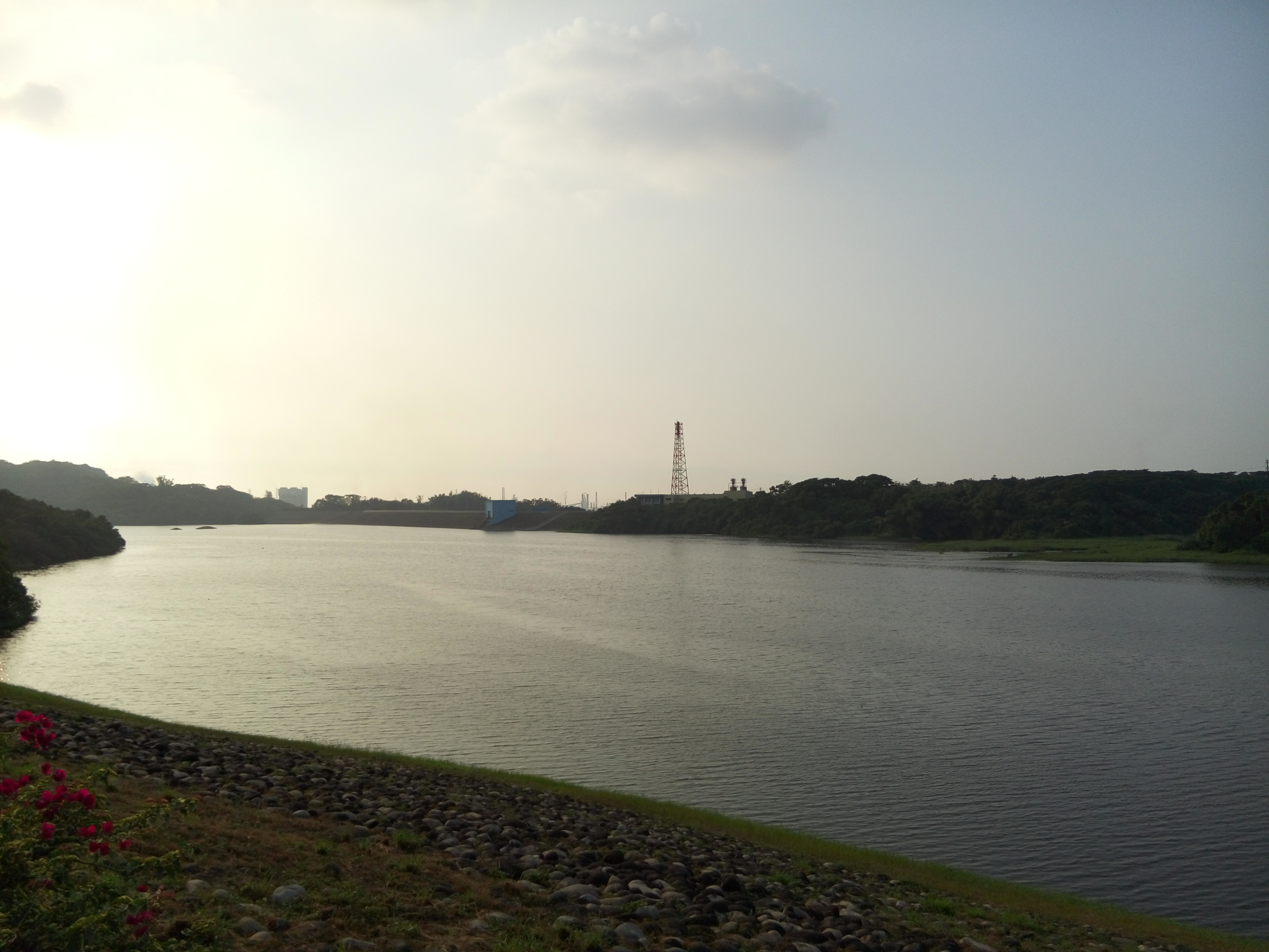 Taiwan (R.O.C) Kaohsiung City Fongshan Reservoir